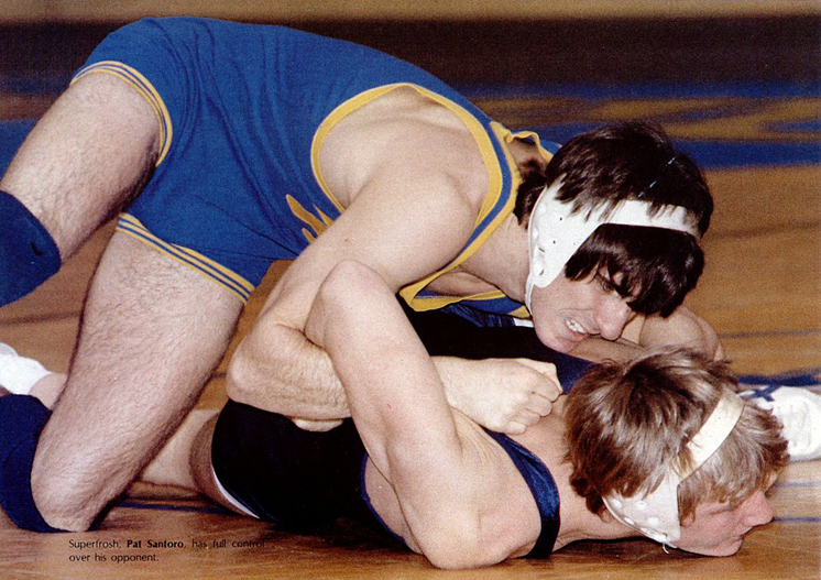 Pat Santoro was a four-time All-American and two-time NCAA wrestling national champion (1988 and 1989) at 142 lbs for the University of Pittsburgh Panthers wrestling team. Photo is from the 1985-86 season when Santoro was a freshman.